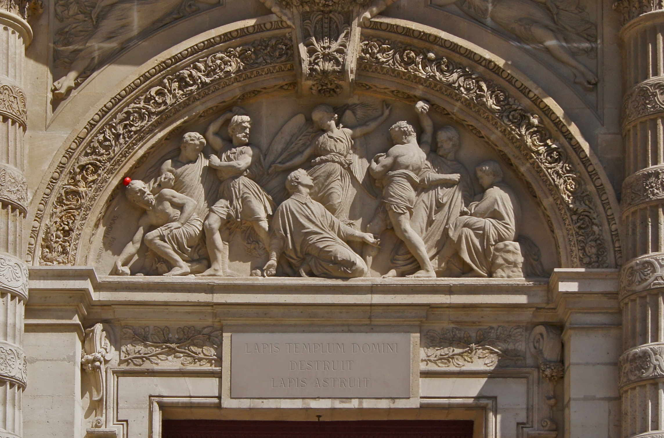 The stoning of St. Stephen (1863) by Gabriel-Jules Thomas (1824–1905). Lunette of the main gate of the church Saint-Etienne du Mont ("St. Stephen in the Mount"), Paris, with a stuck red ball.